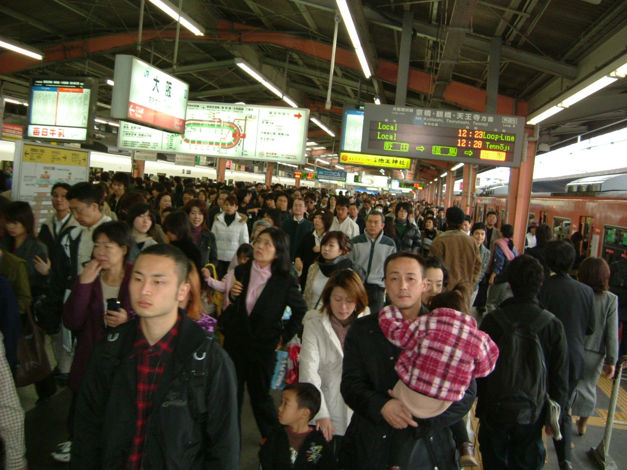 Osaka Loop Line Osaka Station